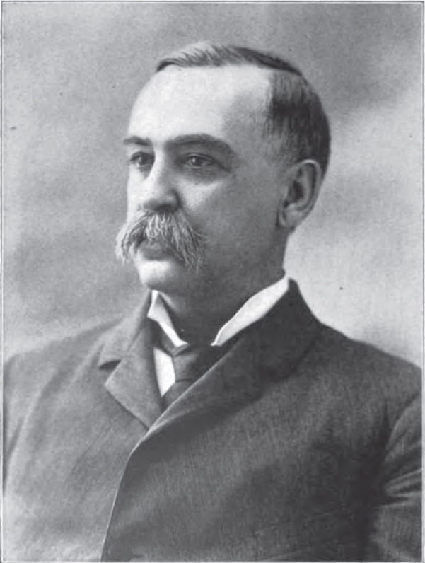 Ohio politician David K. Watson